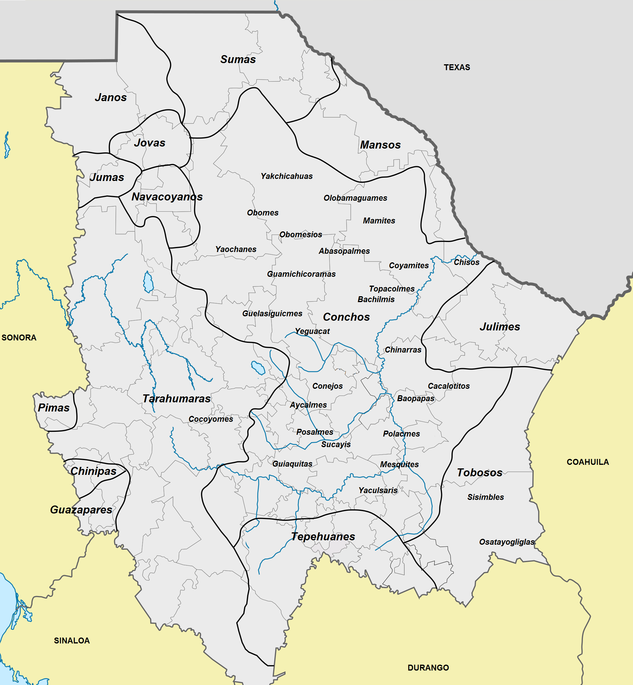 Pre-colombian map of state mexican of Chihuahua. With old tribes and peoples.